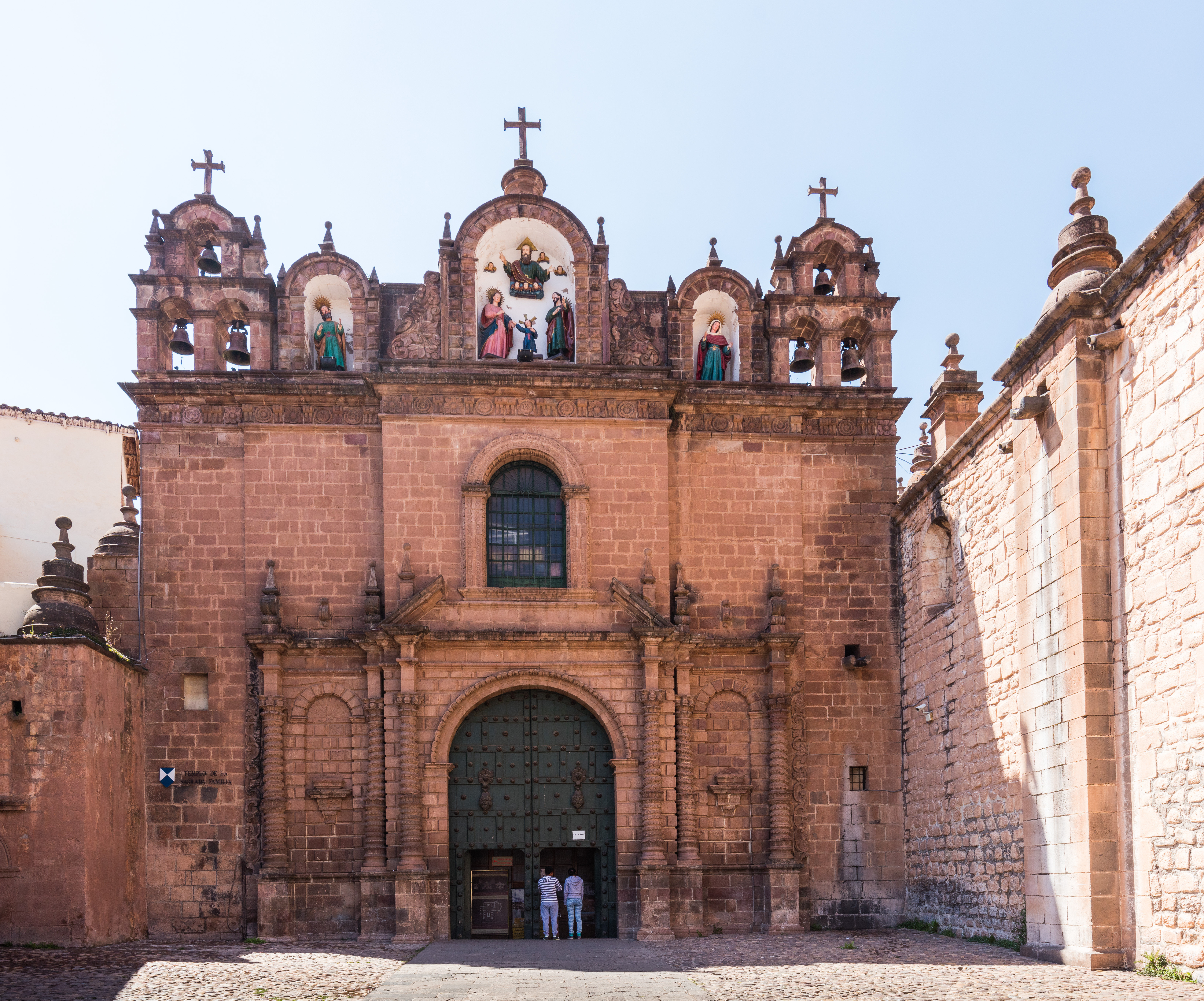 Cathedral, Plaza de Armas, Cusco, Peru